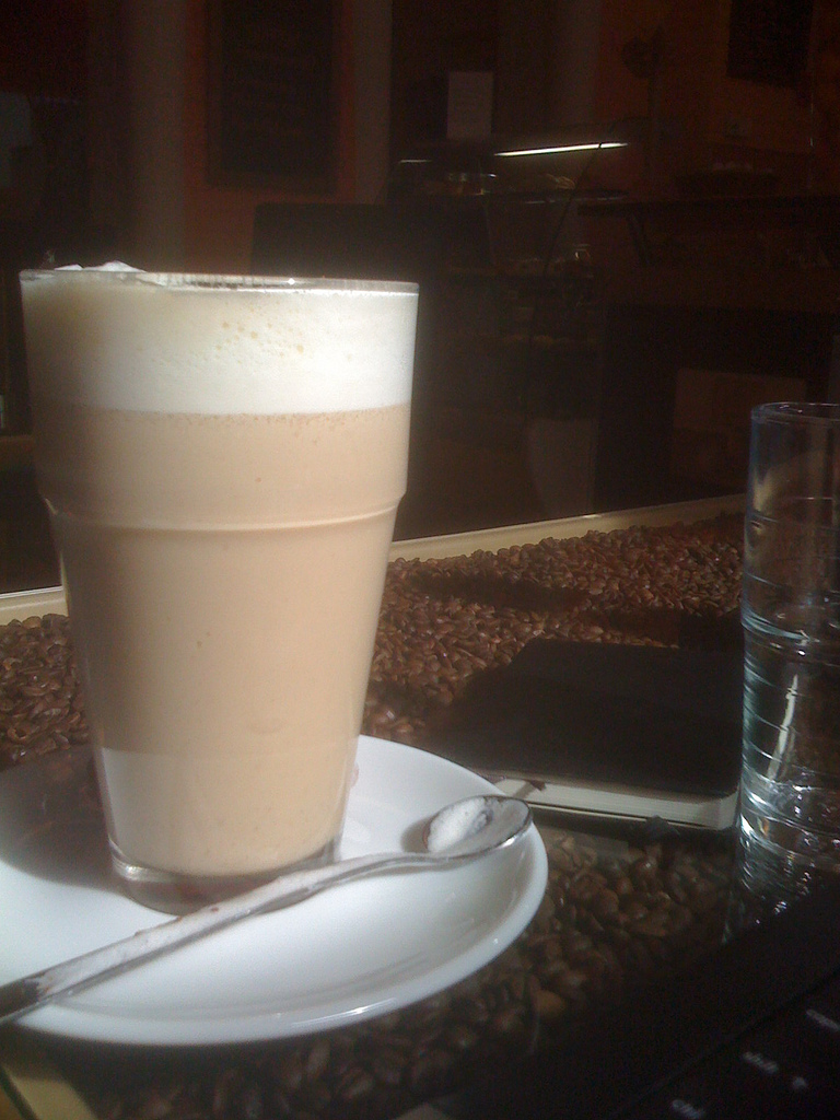 I'm trying to sample all the best cafes in Berlin, and this is the best chai latte I've had yet. It was different than a usual latte, almost like tapioca pudding. Delicious coffee in an amazing cafe.